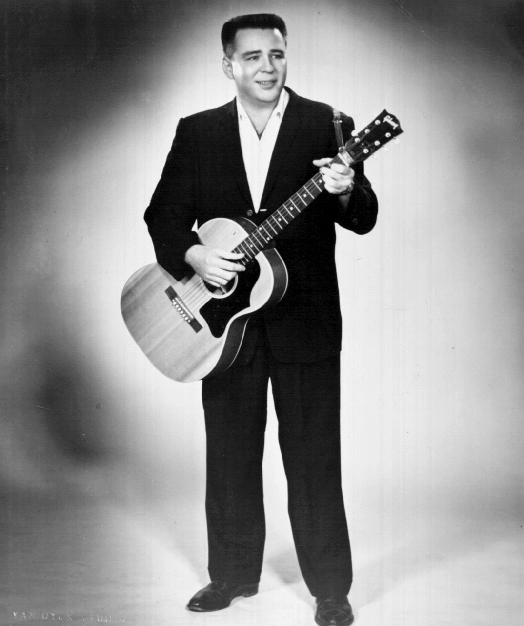 Photo of J. A. Richardson, better known as The Big Bopper. Richardson, along with Richie Valens, Buddy Holly and their pilot, died in a plane crash in Iowa on February 3, 1959.